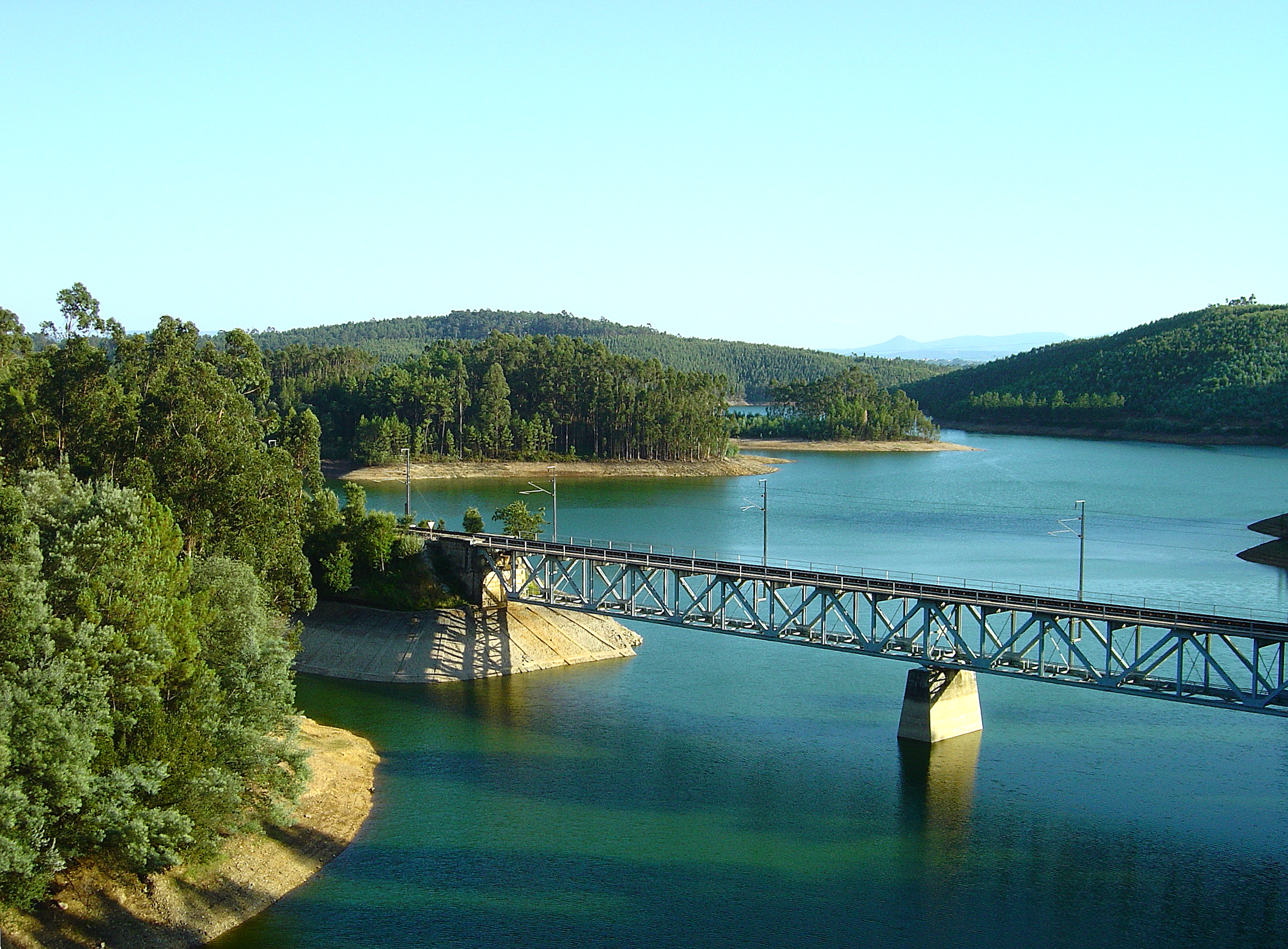 See where this picture was taken. [?]